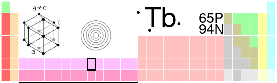 This image was copied from . The original description was: Terbium table image created for Wikipedia by Schnee on June 24 2003, 15:42 UTC.